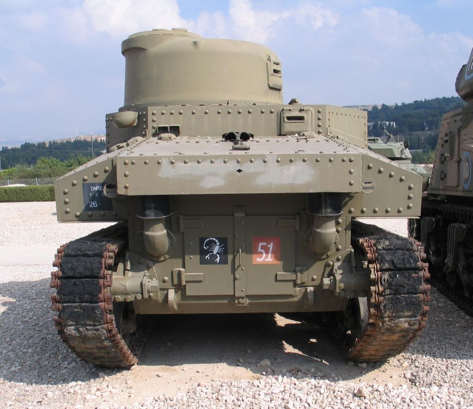 Description: M3 Lee medium tank in Yad la-Shiryon Museum, Israel. 2005. Source: Photo by me, User:Bukvoed.